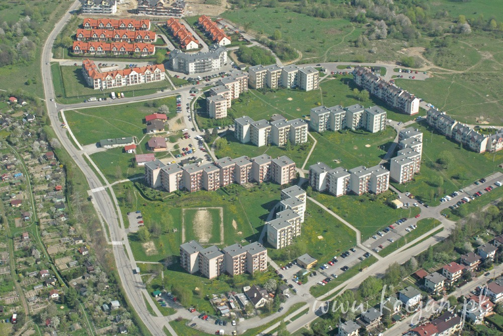 Langiewicza housing estate in Bielsko-Biała, Poland.